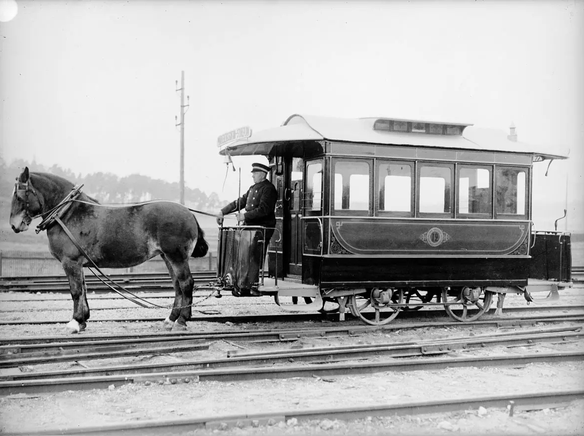 Horse tram in Stockholm, Sweden.